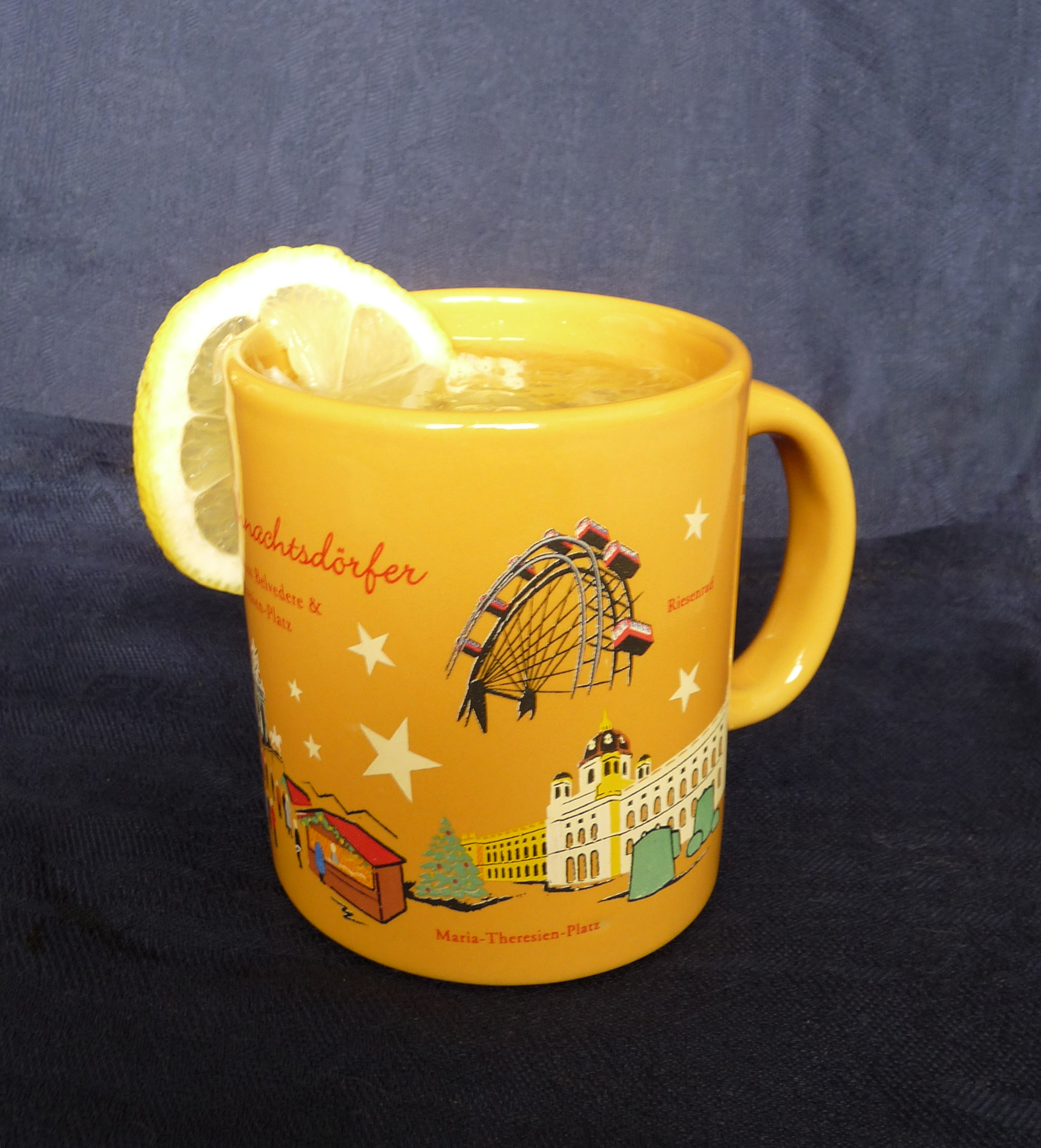 Punch in a mug sold during the Christmas markets of 2010 in the city of Vienna, Austria.